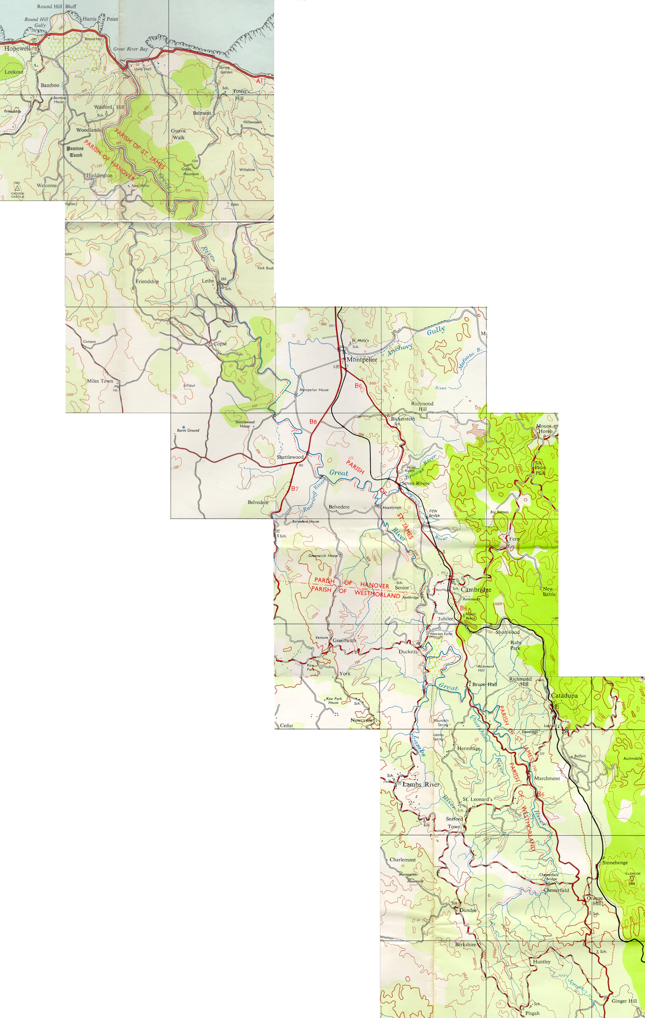 An extract from a montage of scans of the UK Directorate of Overseas Surveys 1:50,000 map of Jamaica showing the entire course of the Great River.